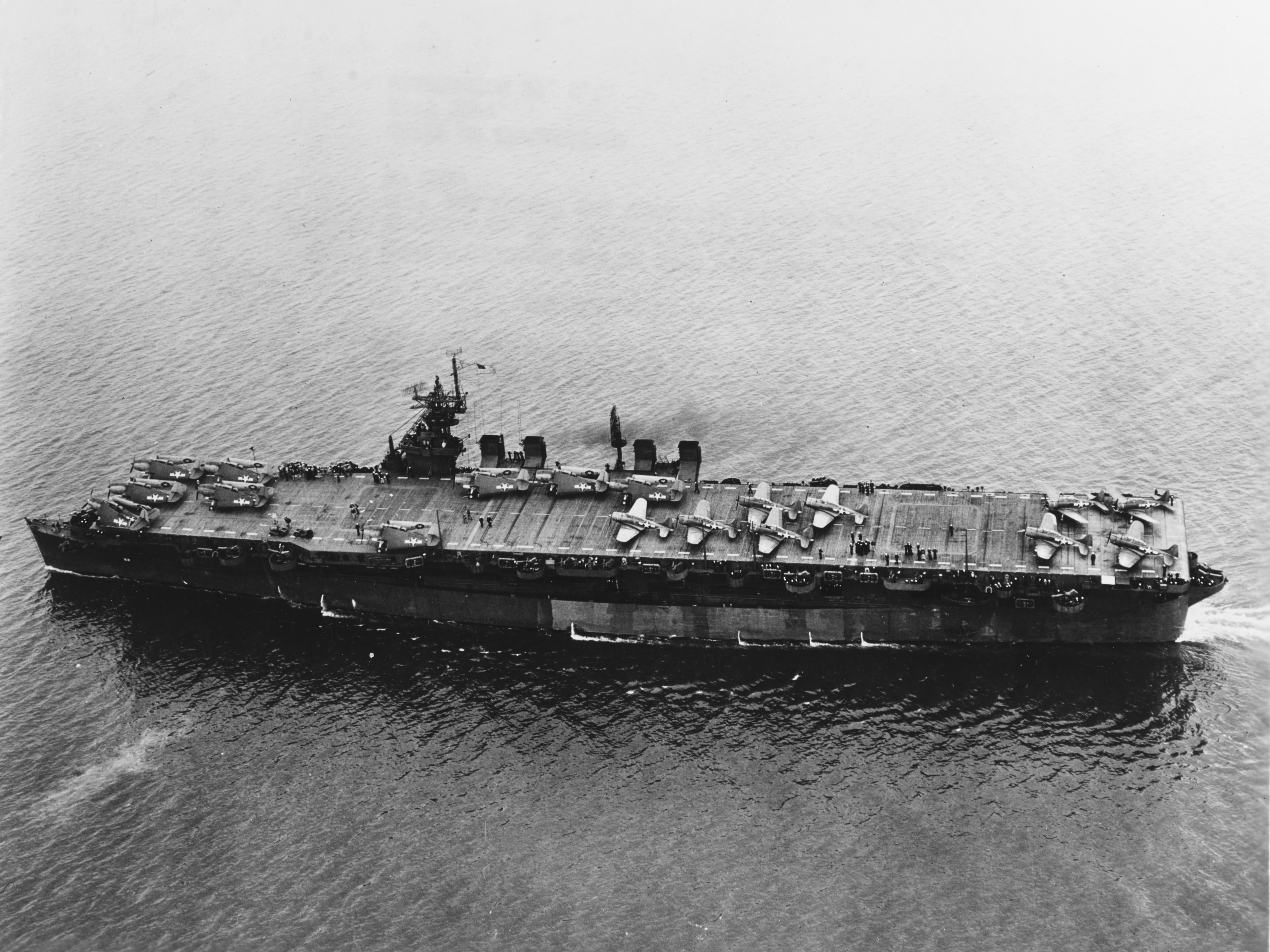 The new U.S. Navy light aircraft carrier USS Independence (CVL-22) in San Francisco Bay (USA) on 15 July 1943. Note that she still carries Douglas SBD Dauntless dive bombers. Before entering combat the air group would only consist of Grumman F6F Hellcat fighters and TBF Avenger torpedo bombers.